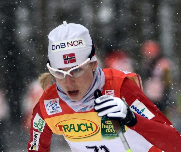 Kristin Størmer Steira at the Tour de Ski 2010 in Oberhof